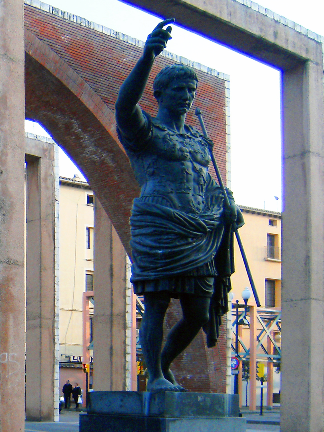 Zaragoza, The César Augusto monument